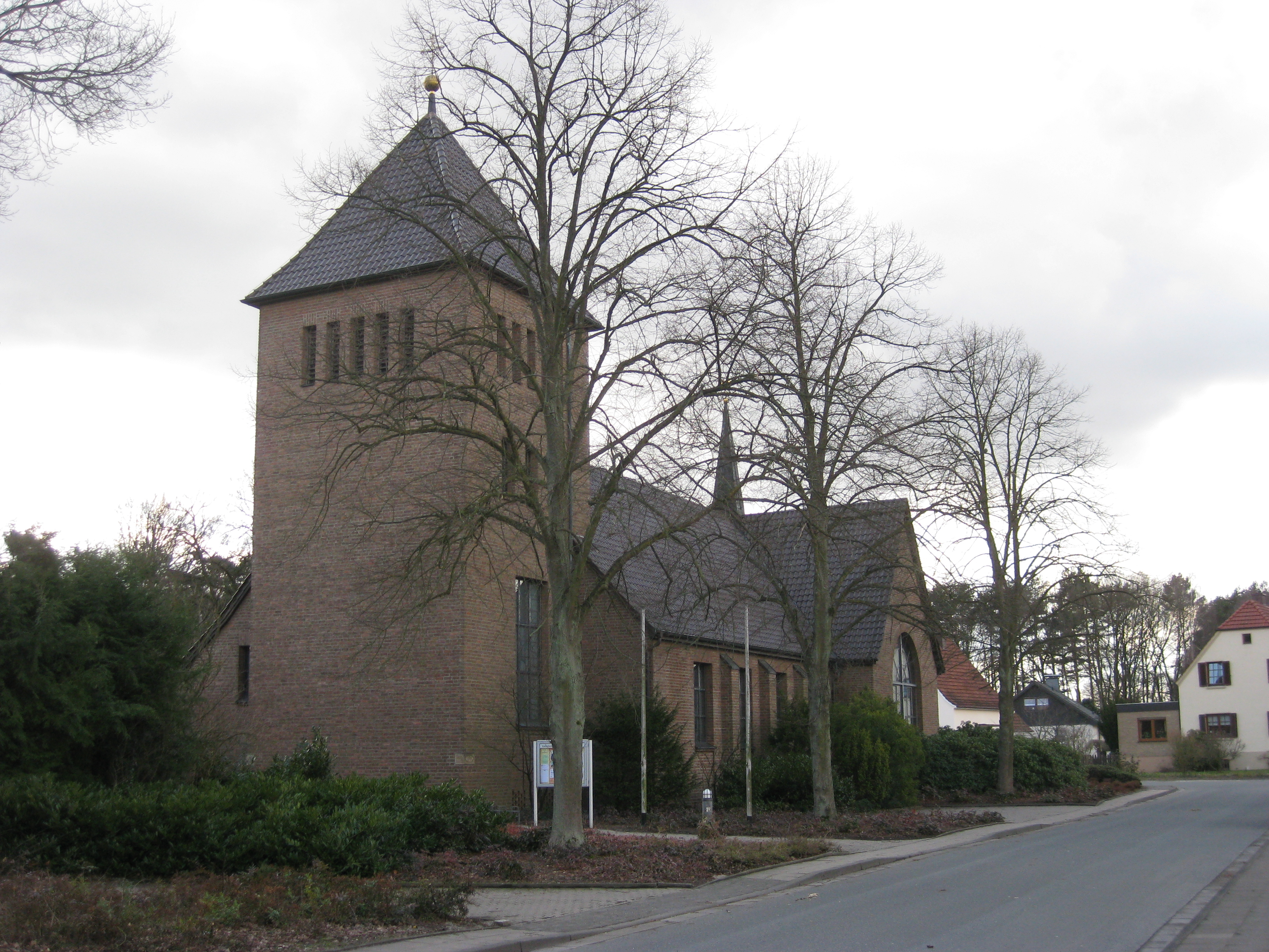 catholic parish church St. Michael in Bielefeld-Ummeln